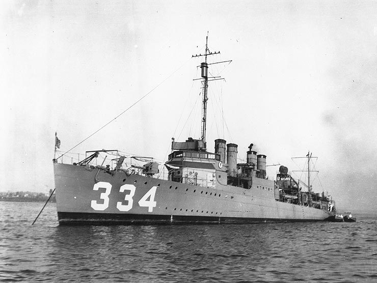 The U.S. Navy destroyer USS Corry (DD-334) anchored off San Diego, California (USA), circa the early 1920s.